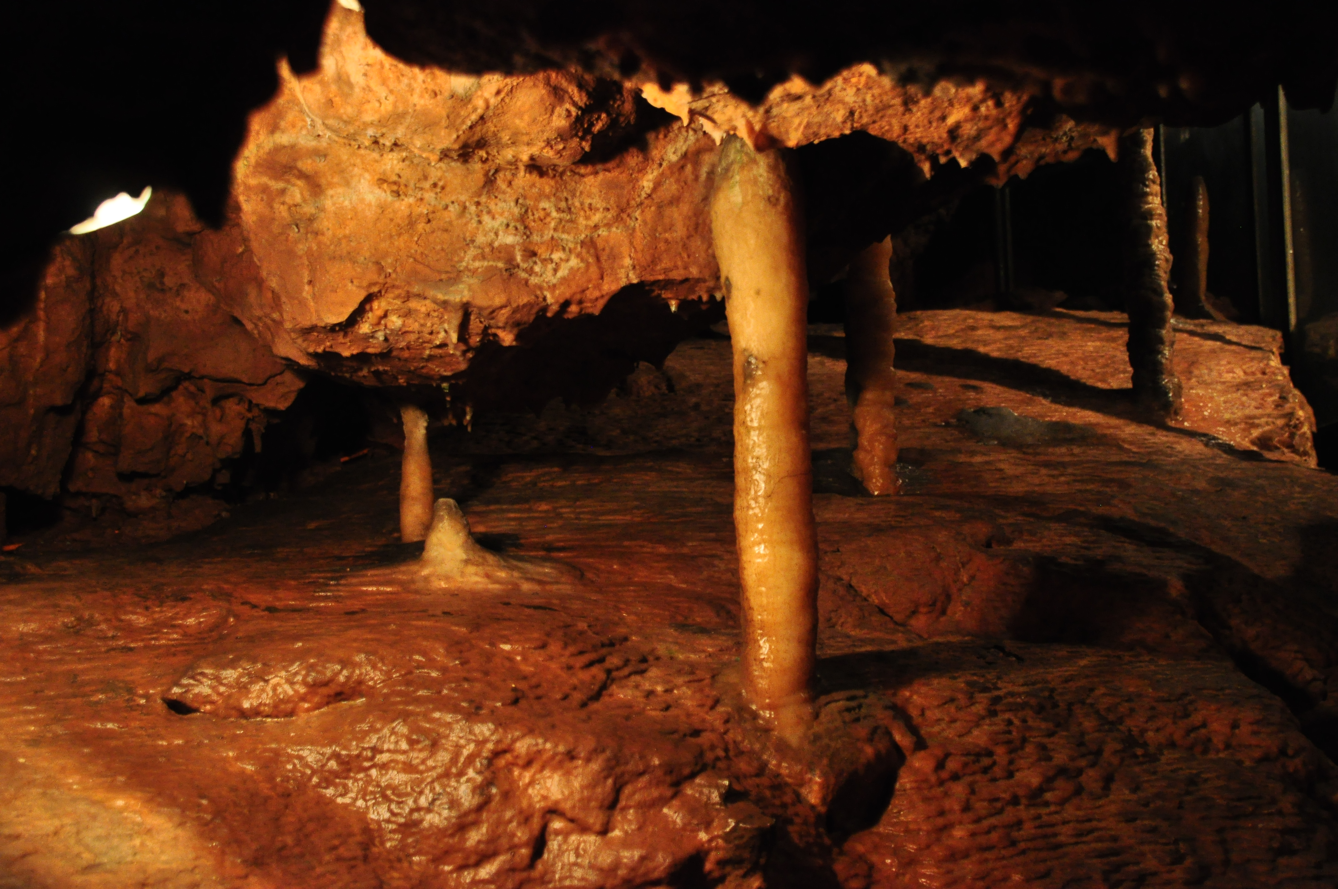 Kents Cavern